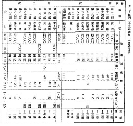 List of NRA weapons